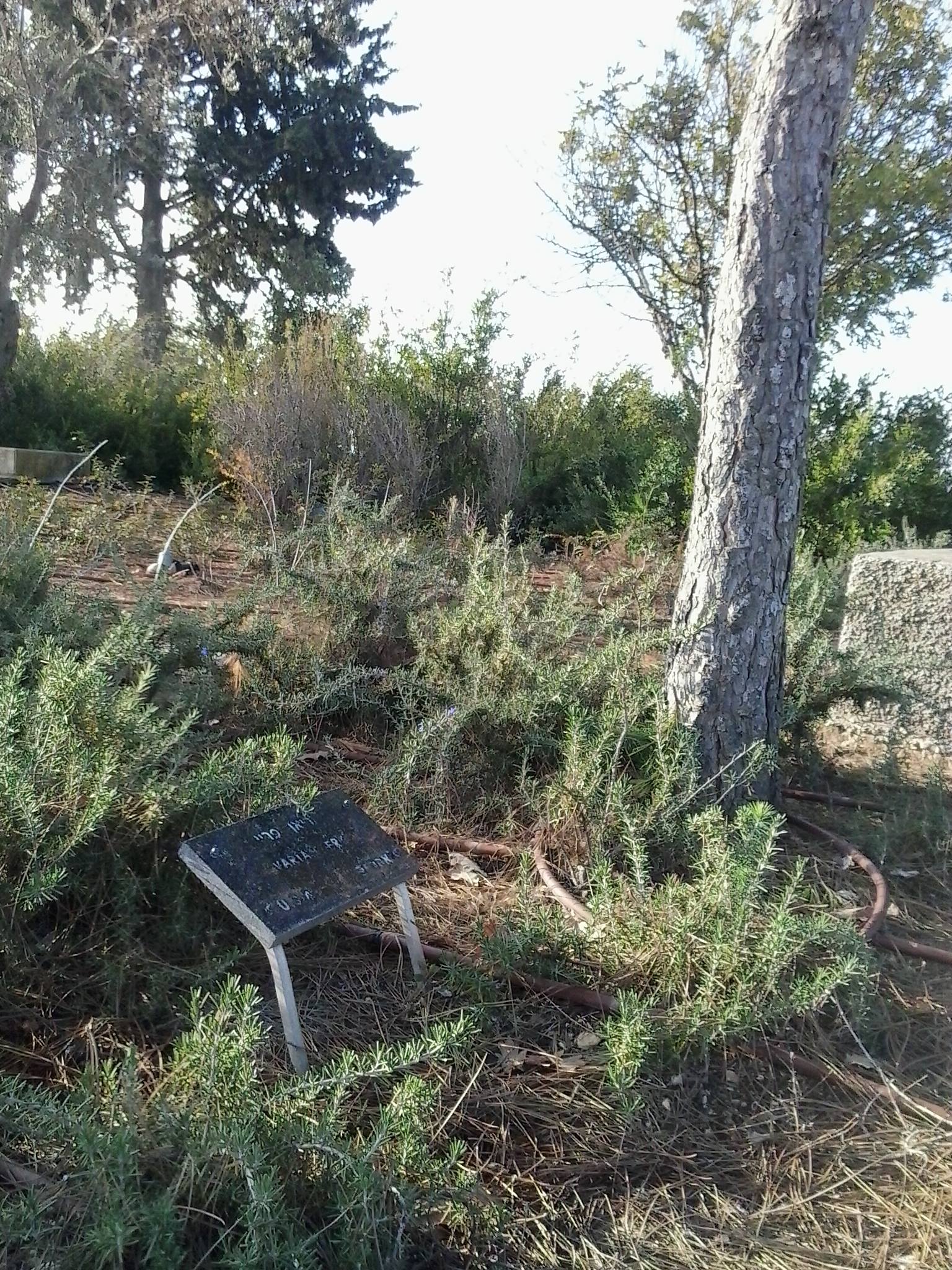 The tree planted at Yad Vashem honoring Righteous Among the Nations Varian Fry